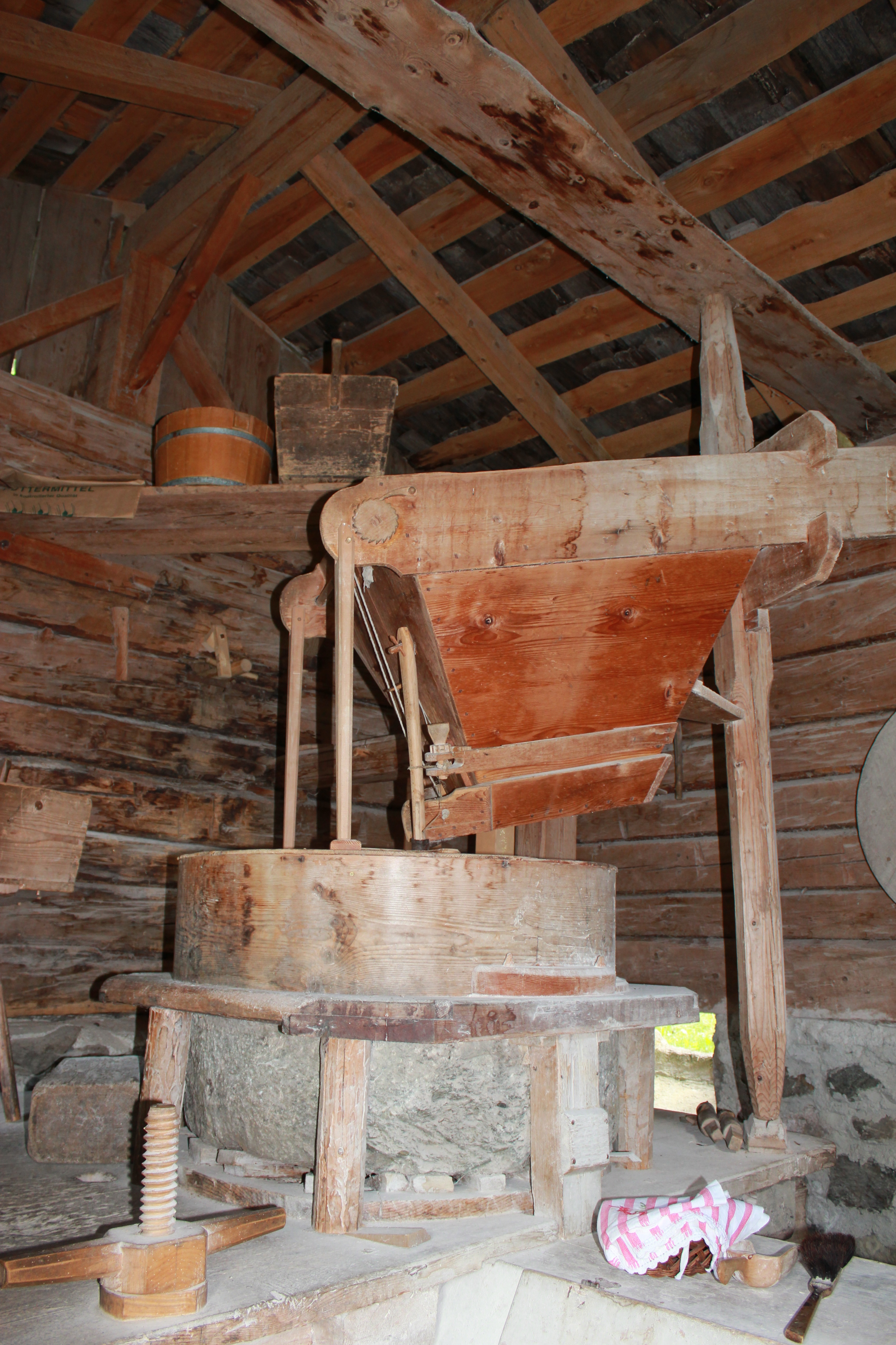 Old mill in Maria Luggau in the community Lesachtal